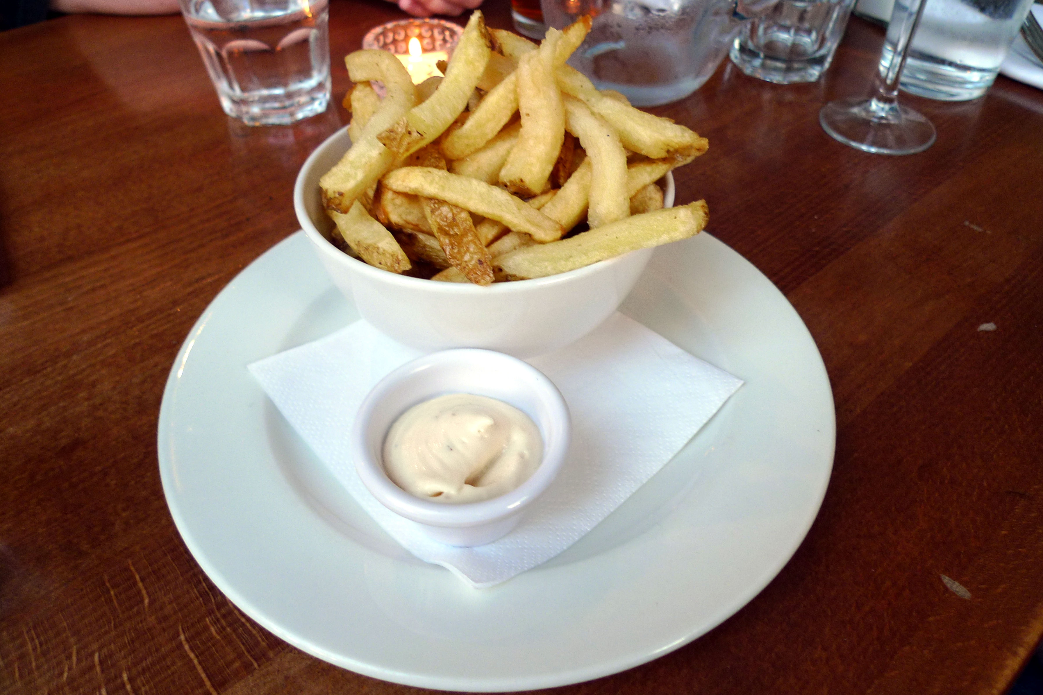 The bowl of chips with aioli. At The Clifton, Clifton Hill.